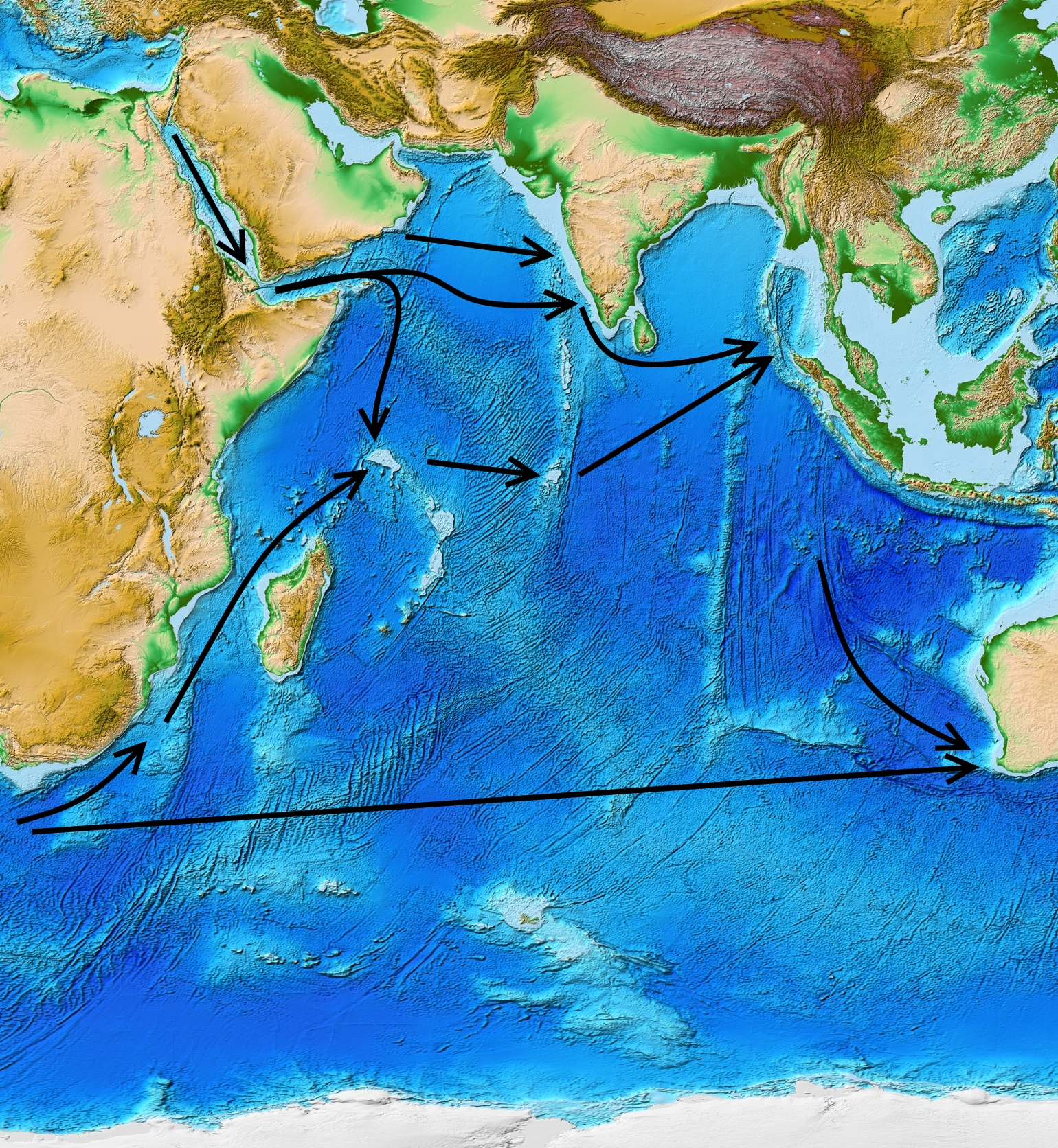 Preferred sailing routes across the Indian Ocean, direction east